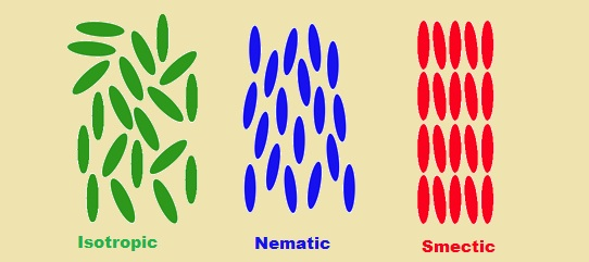 This is an assembly of three different heated phases of liquid crystals